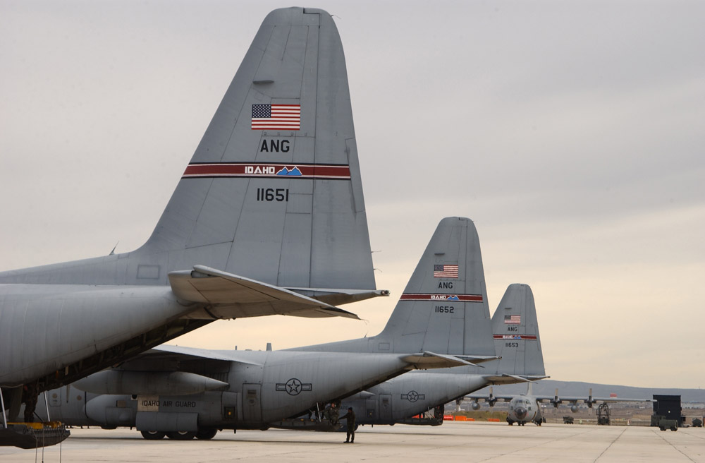 C-130 air transport planes parked on the ramp at Gowen Field in Boise, Idaho